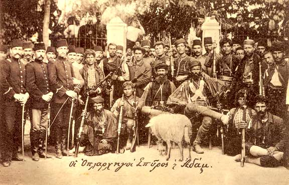 Chetas of greek andarts Spyros and Adam with Turks